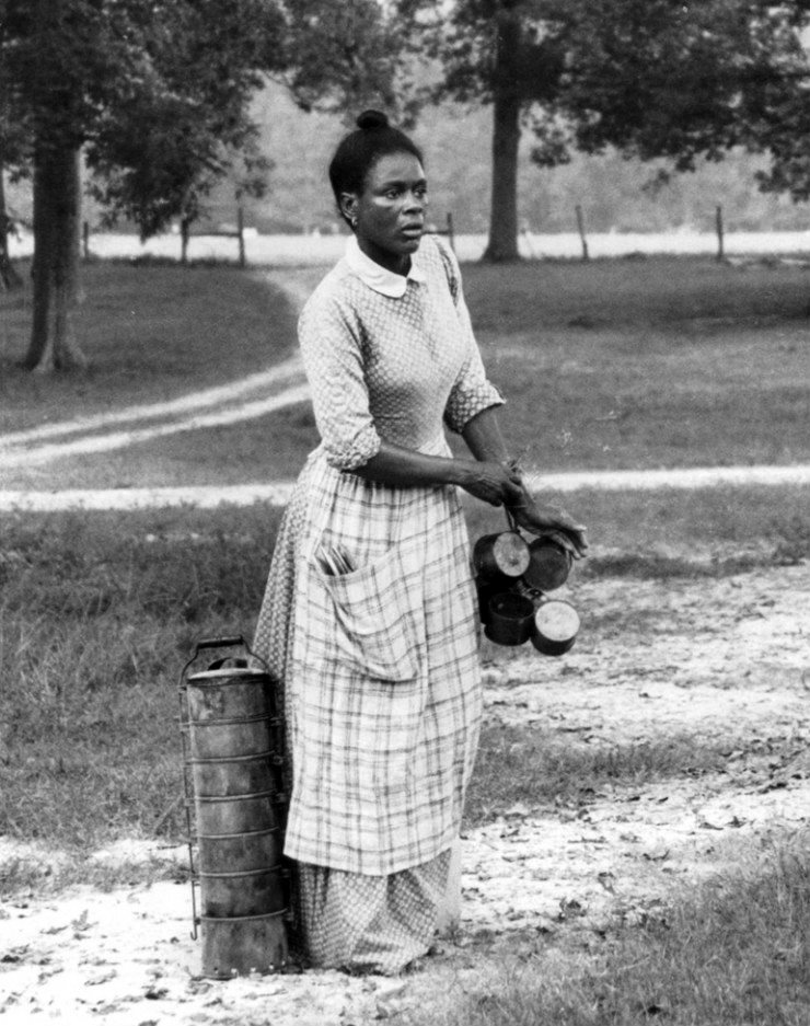 Photo of Cicely Tyson as Jane Pittman from the television film The Autobiography of Miss Jane Pittman.